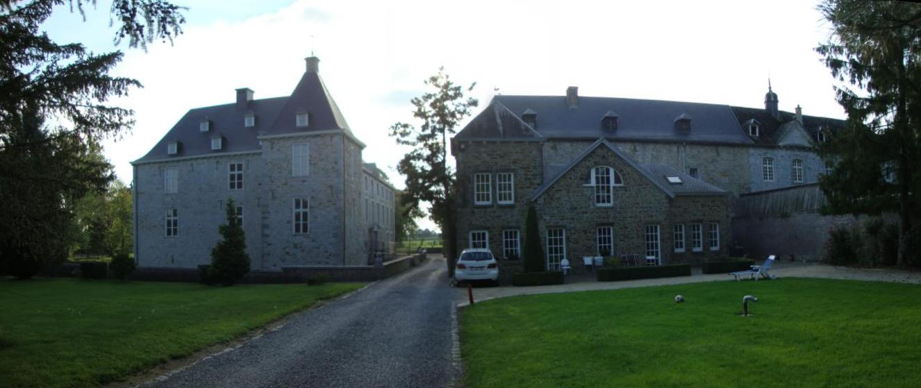 Ruyff castle to Henry Kapelle (Welkenraedt). The entrance building and the west wing dates from the early 19th century, but the beautiful East Wing is older and dates from 1716. Some parts of the 14th century.